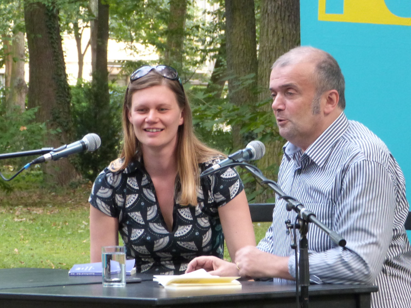 German poet Kerstin Preiwuß and critician Michael Braun (Kritiker) at the Erlanger Poetenfest 2012